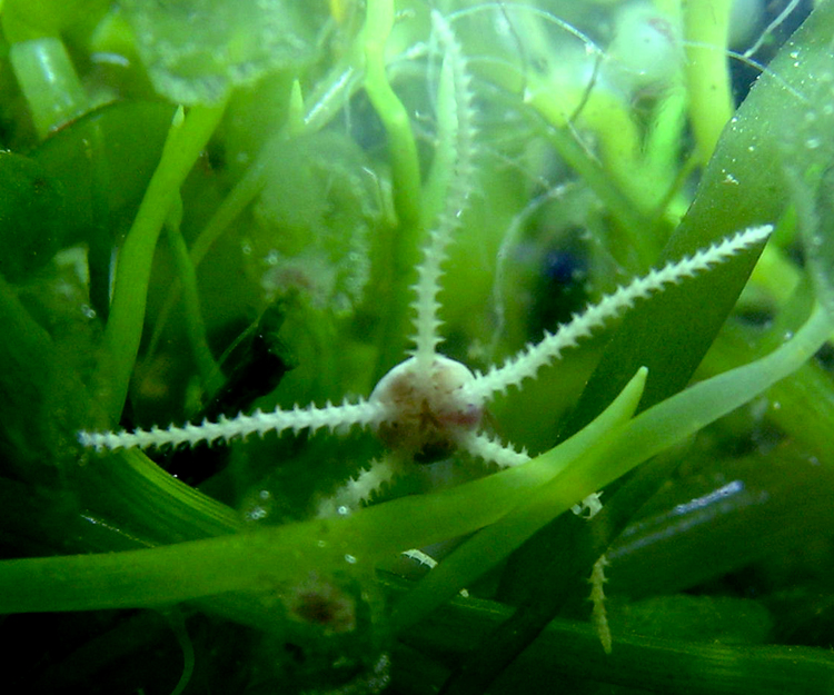 Micro brittle starship in aquarist Mike Giangrasso's refugium.